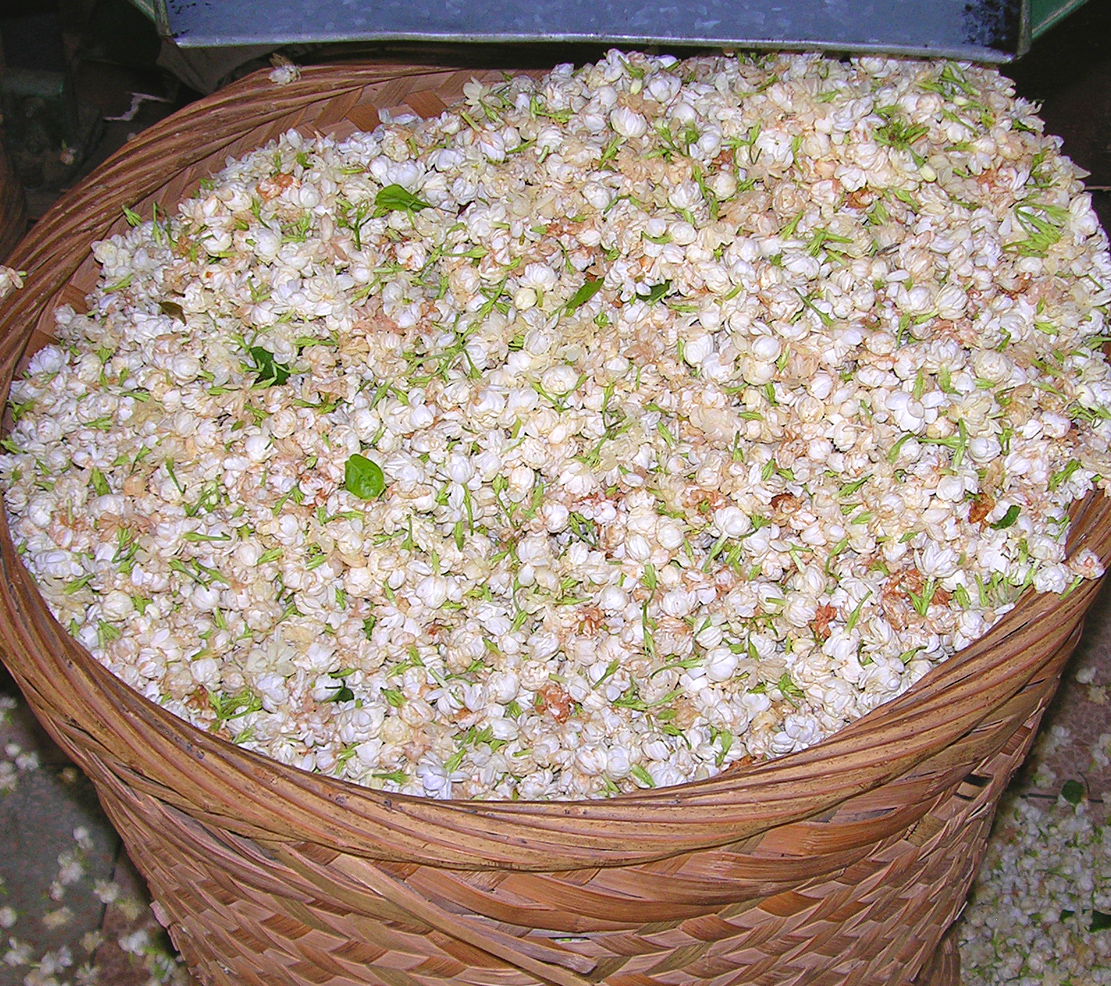 Closeup of jasmine blossoms poured onto tea to cure jasmine green tea. Taimu Mountain, Fujian Mountains, China.